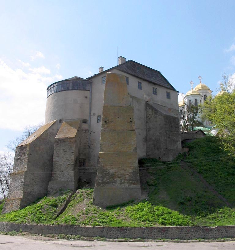 The Ostroh Castle in western Ukraine.